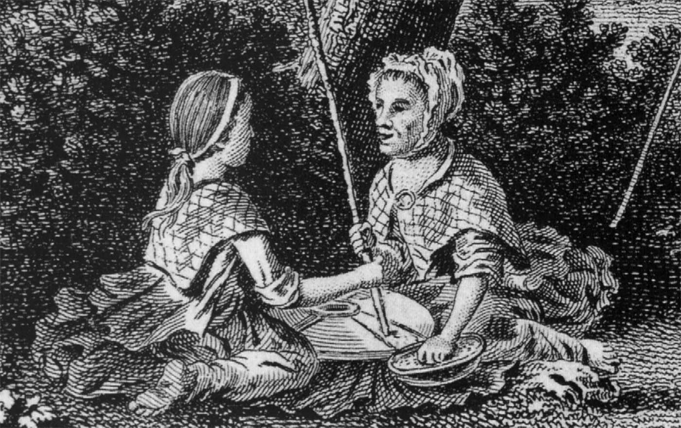 Detail from an 18th century engraving showing a girl and an older woman grinding grain. The quern rests on the skirts of the woman on the right, possibly to catch grain. Each is wearing a tonnag (a tartan shawl) over her shoulders.[1][2] The stìom (ribbon worn around the head) indicates that the wearer is unmarried; the girl also wears a ponytail.[3] The older woman wears a bonnet (muidse[4]).[2]